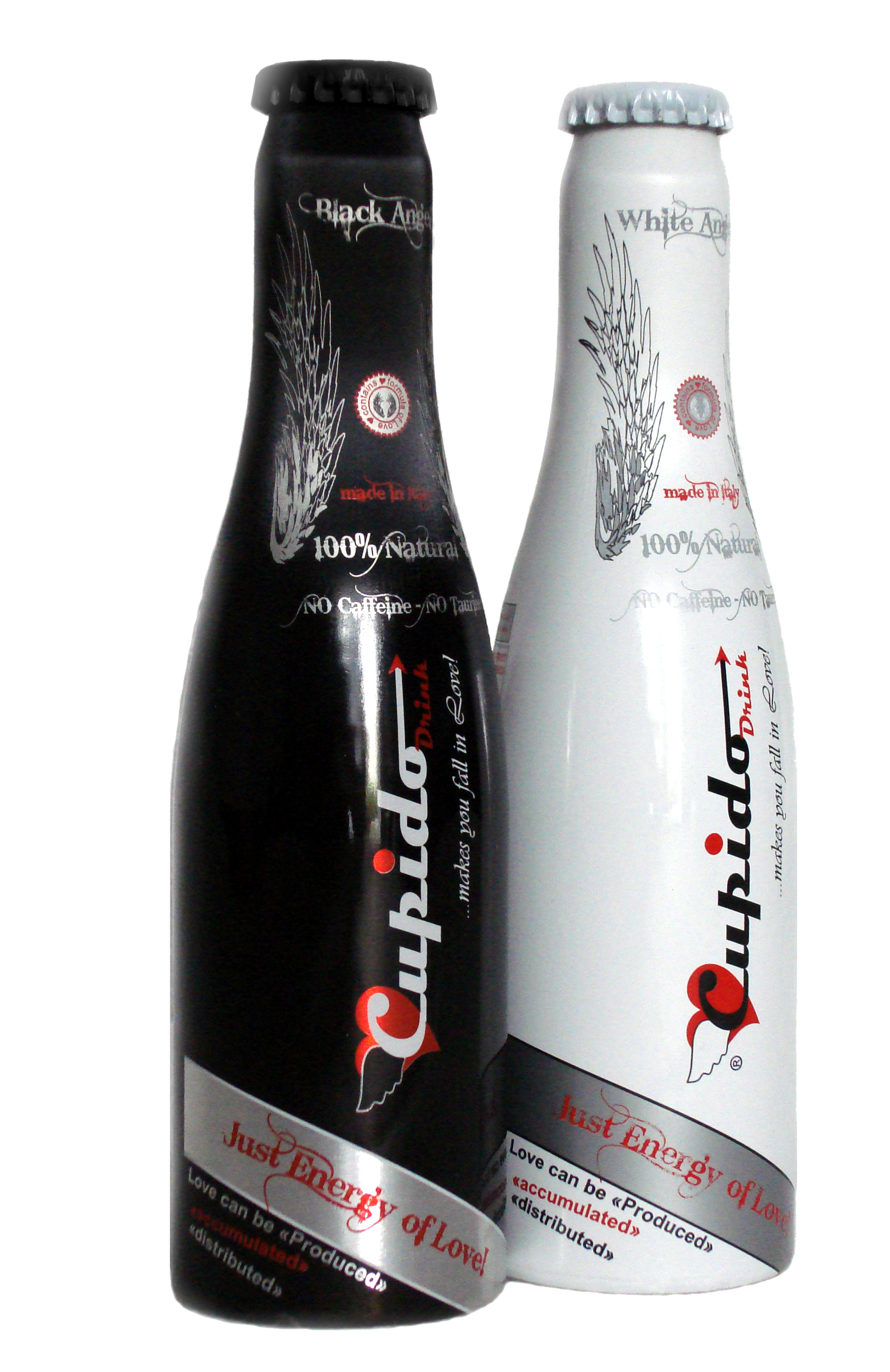 Cupido Drink aluminum bottles, the drink of Love of the town of Verona Italy